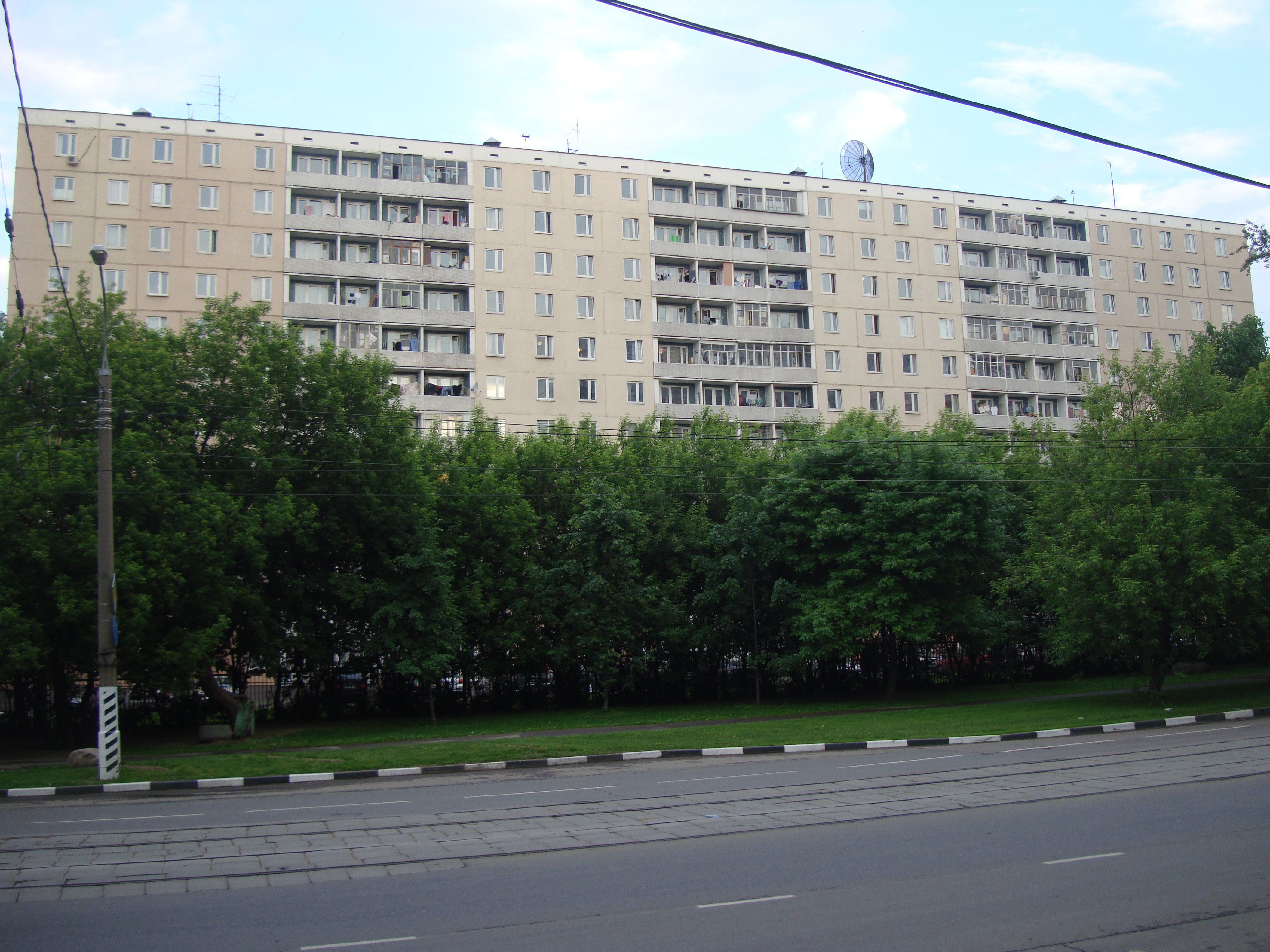 7A Simferopolskiy boullevard, Moscow, Russia. Embassy of Guinea-Bissau. Embassy of Democratic Republic of the Congo. Embassy of Somalia. Симферопольский бульвар, д.7А, Москва, РФ. Посольства Гвинеи-Бисау, Сомали и Демократической Республики Конго.